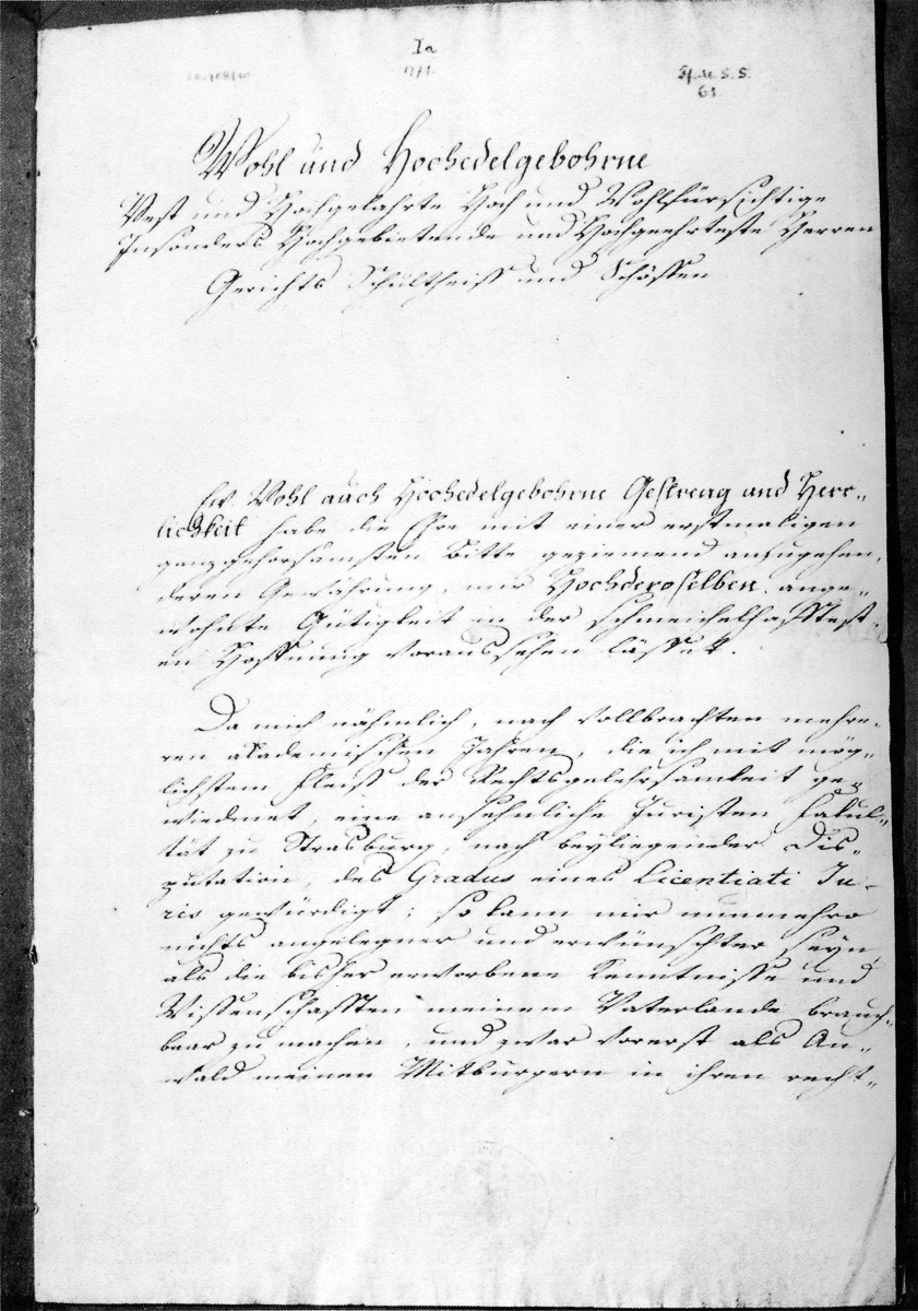 Frankfurt on the Main: Application for admittance as an advocate by Johann Wolfgang Goethe